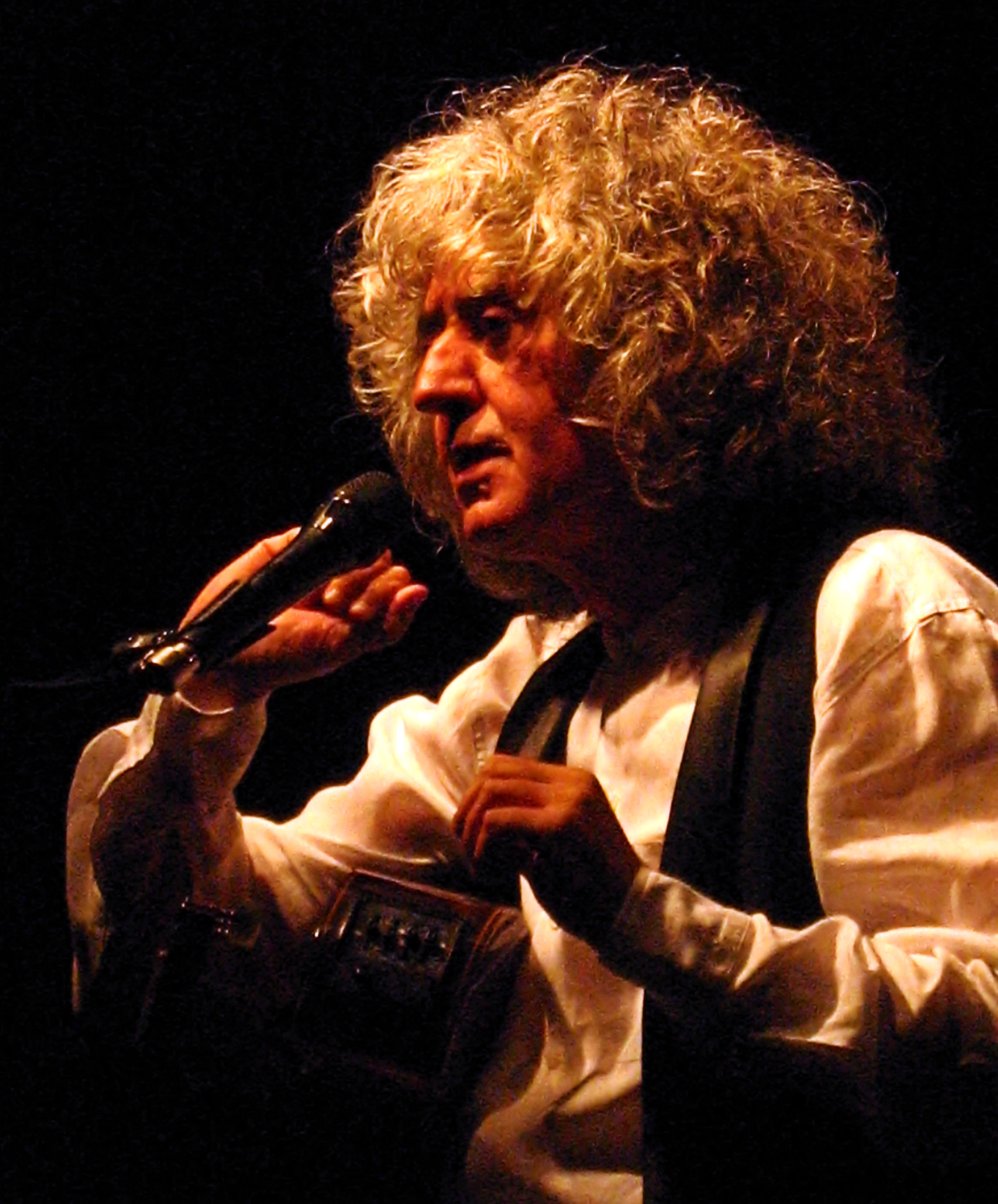 Angeolo Branduardi Concert in Dachau Hofgarten 2008